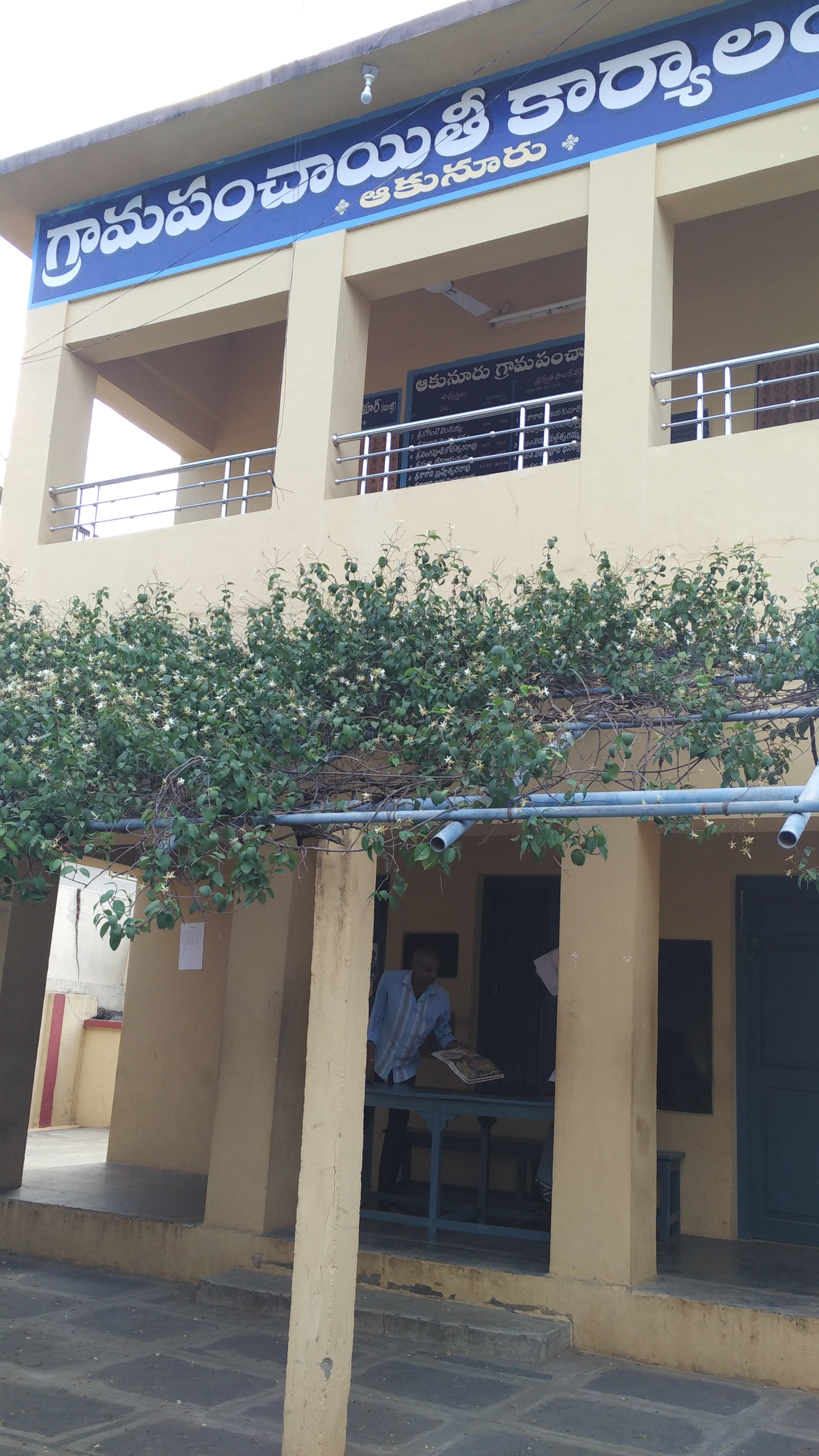 A Village Panchayat Office building in Akunuru Village of Vuyyuru Mandal in Krishna District, India